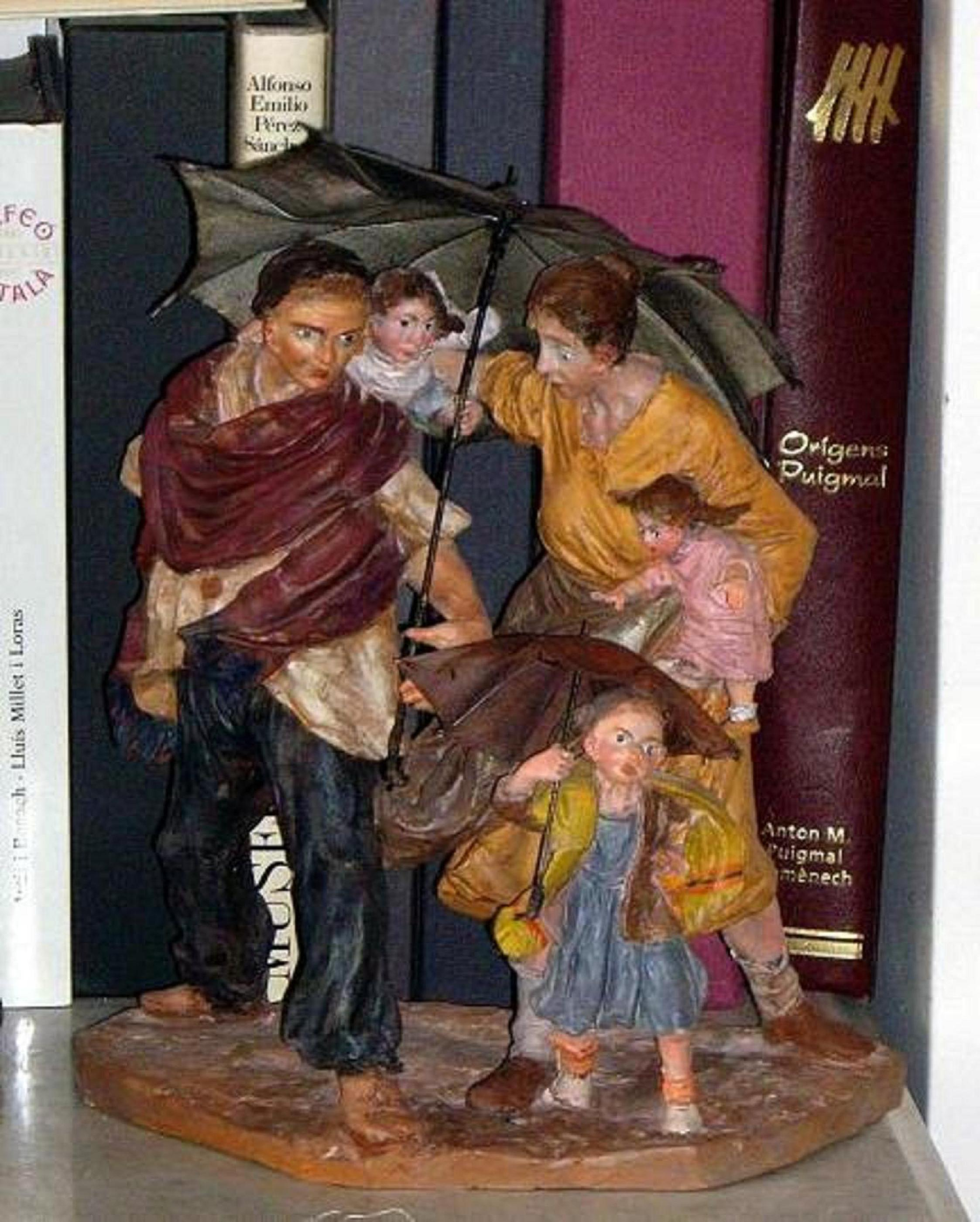 Work of Josep Traite, family under umbrella